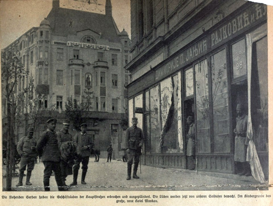 Terzije square during the Austro-Hungarian occupation